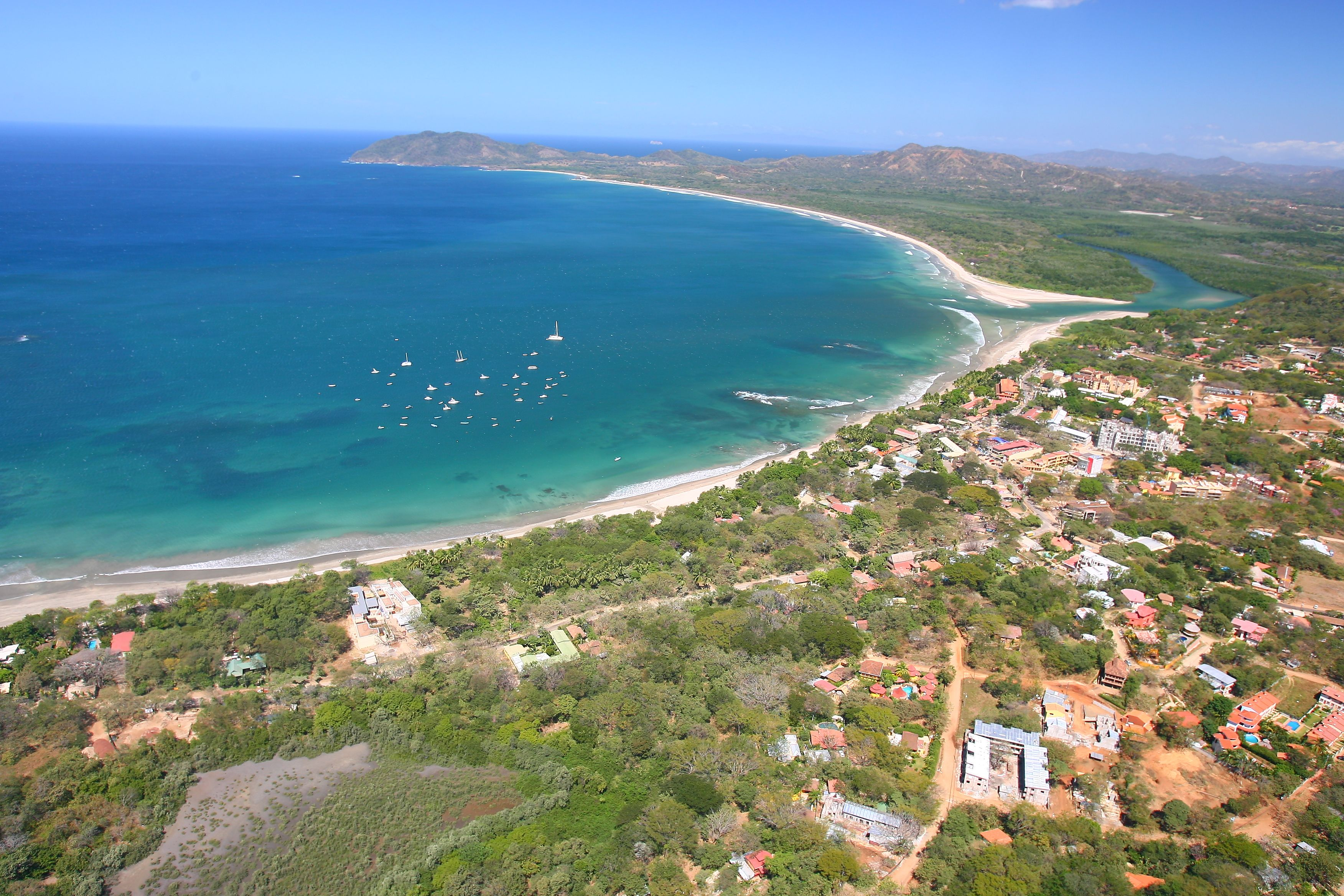 2007 Costa Rica aerial photo of Playa Tamarindo and Playa Grande showing the town and beach of Tamarindo and the pacific ocean.